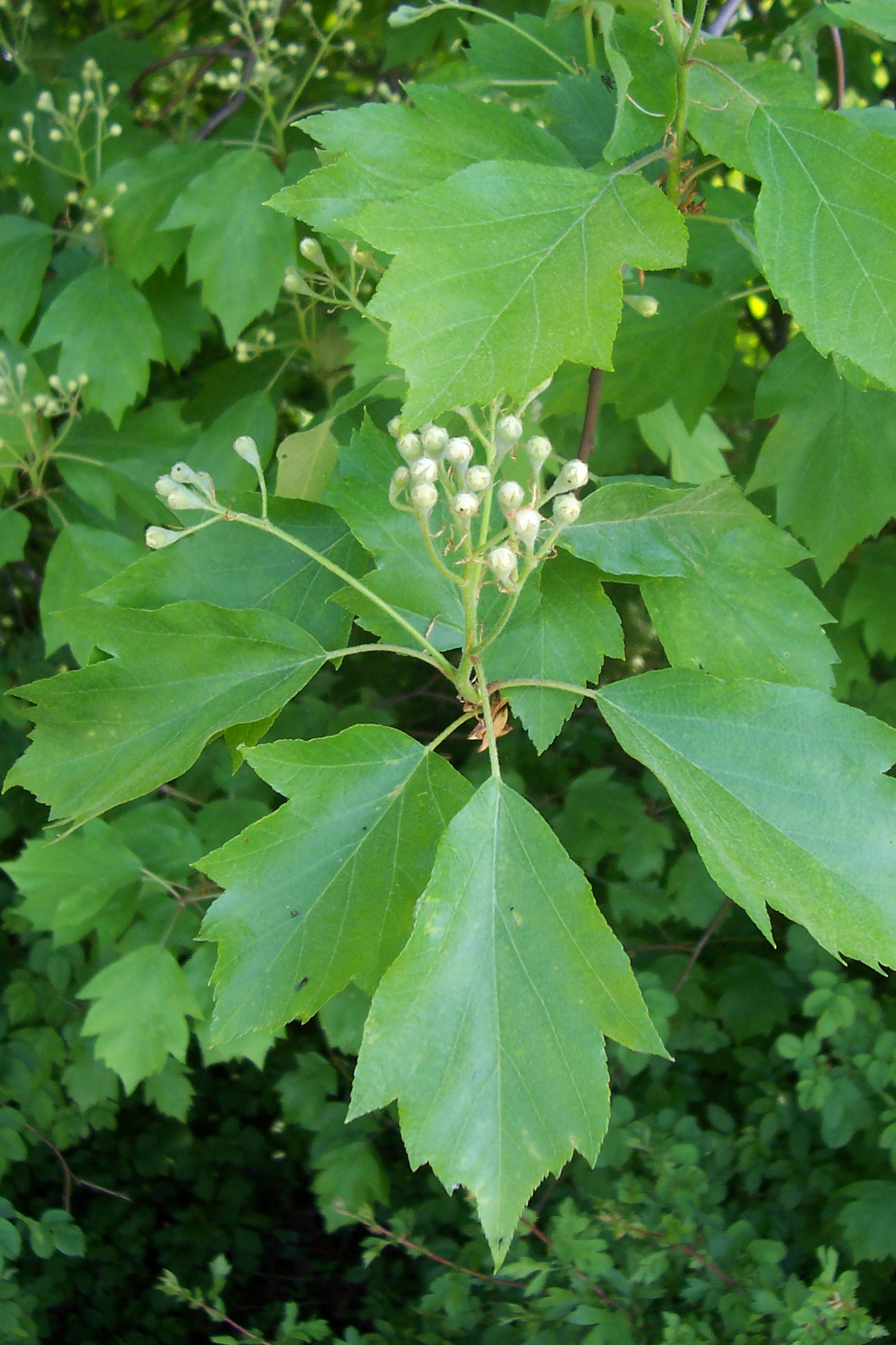 Leaves of a Wild Service Tree (Sorbus torminalis) photographed in Hildesheim-Marienrode